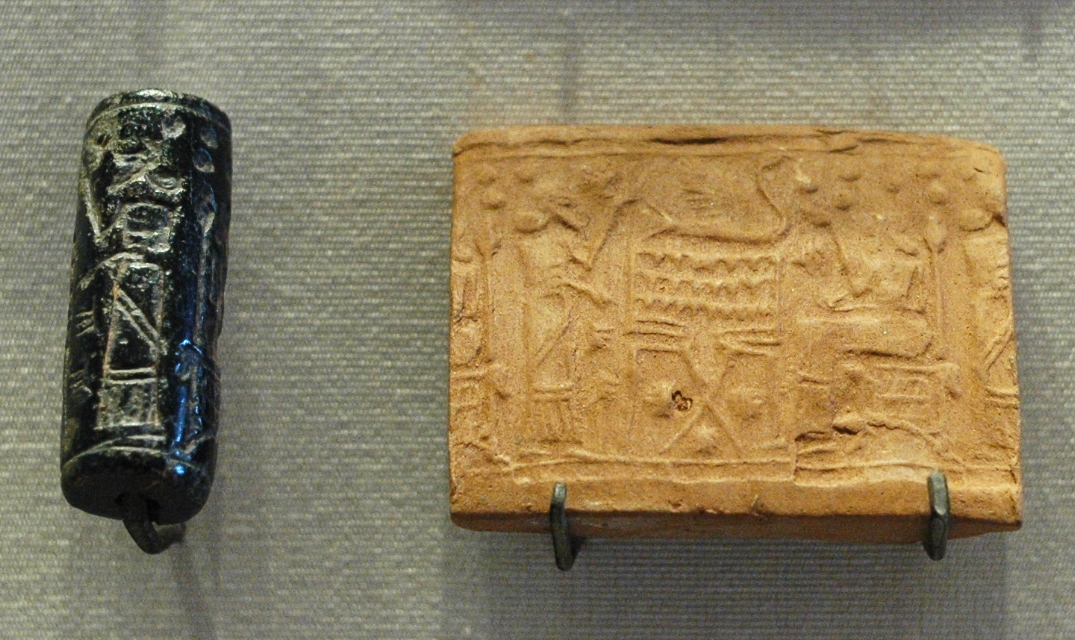 Banquet scene. Serpentine cylinder seal and impression, Neo-Assyrian Period.